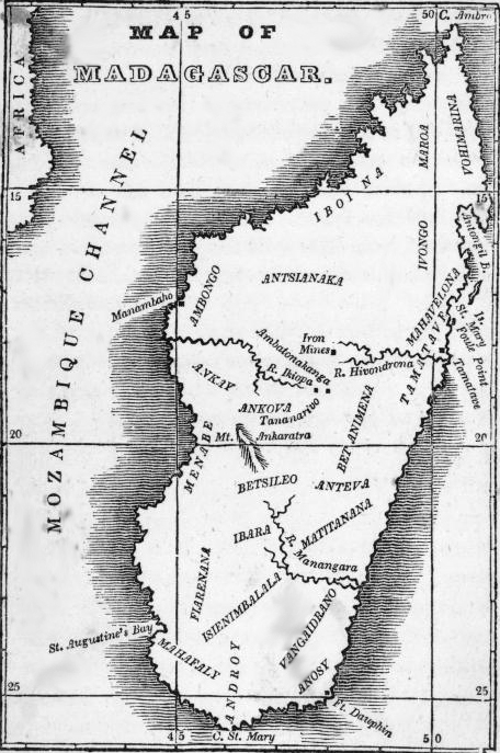 Map of Madagascar (1839)